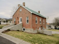 John Meyer House